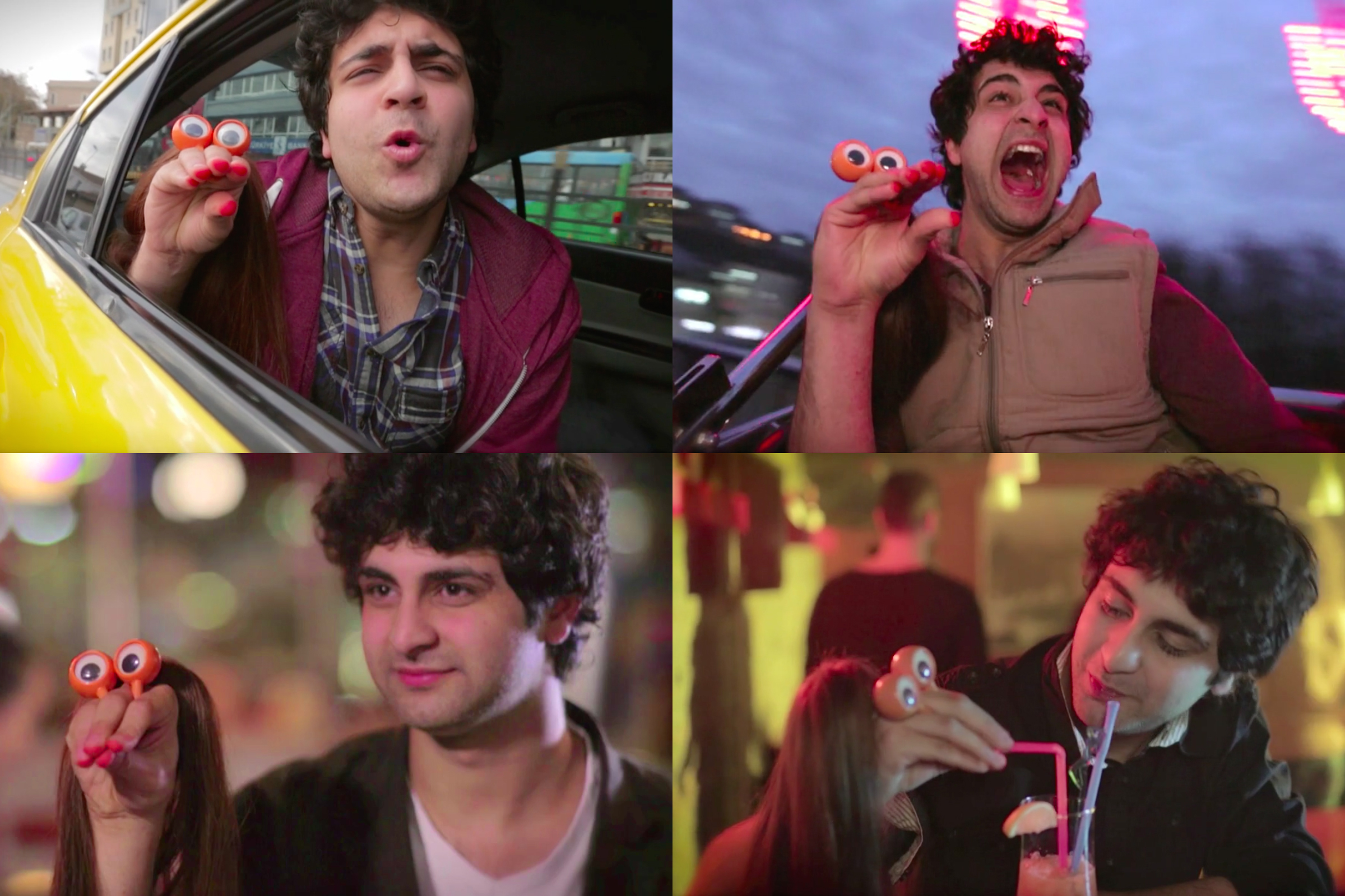 Four screenshots from the "Durex: Farewell Elizabeth" video, depicting a man and an Oobi hand puppet.